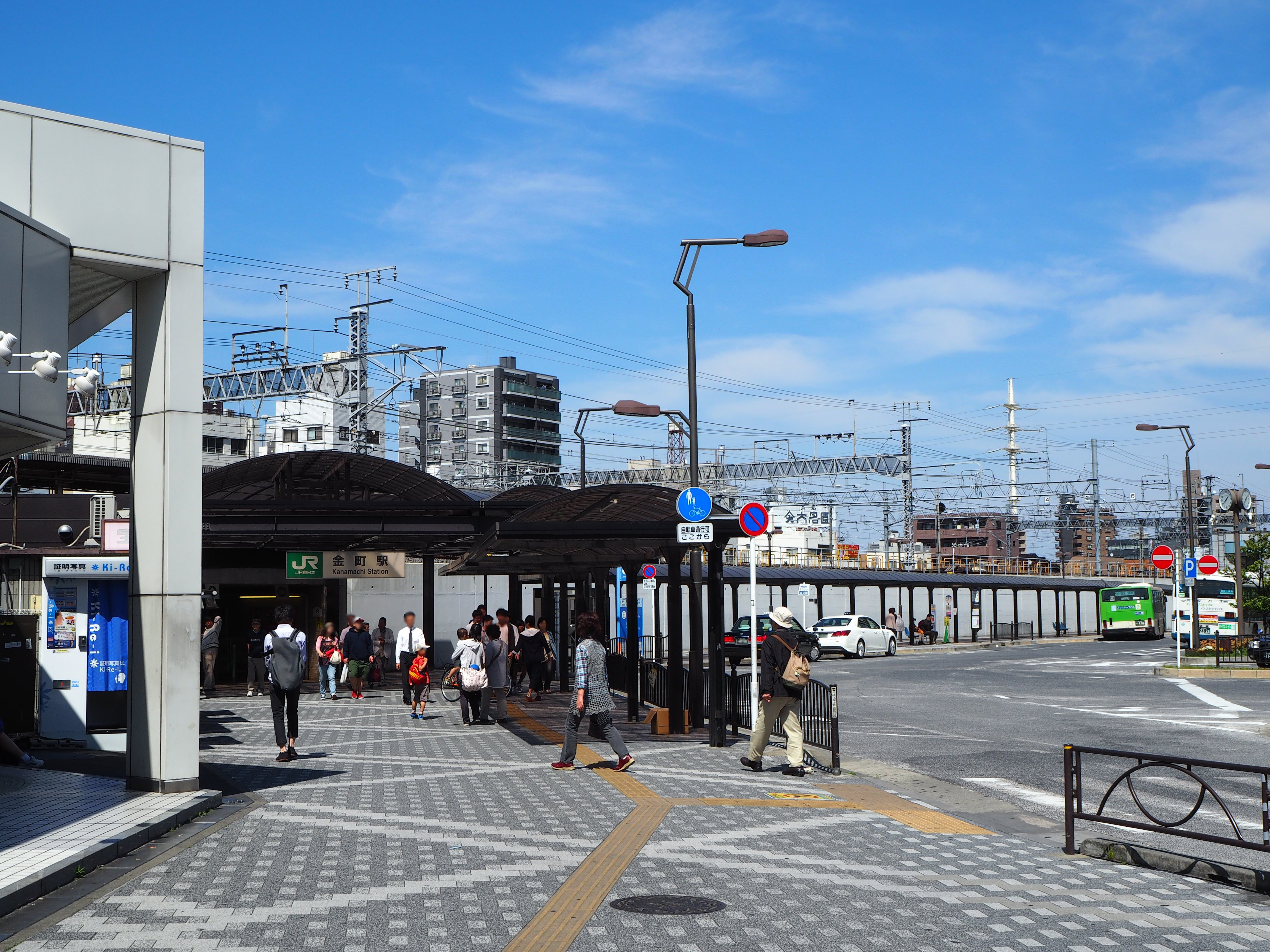 The south entrance to Kanamachi Station in Tokyo